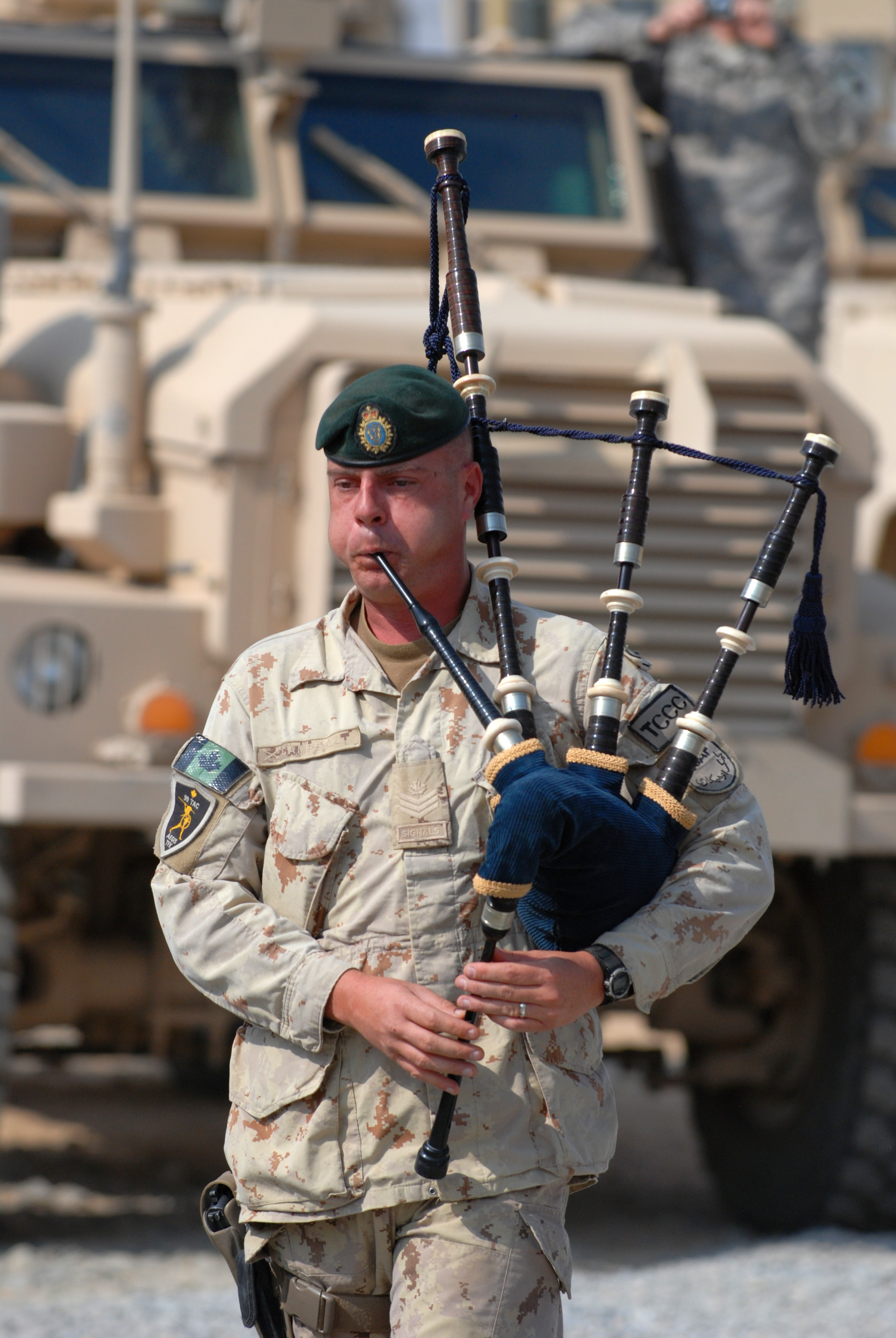 A Canadian bagpiper plays "Amazing Grace"; on the bagpipe during a memorial service, Oct. 29, at Forward Operating Base Wilson, Afghanistan. Pfc. Devin J. Michel, of Stockton, Ill., died, Oct. 24, when enemy forces attacked his platoon with an improvised explosive device. Michel joined the Army in 2008 and deployed to Afghanistan, May 24. He leaves behind his wife, Anika. 1st Battalion, 12th Infantry Regiment Photo by Staff Sgt. Justin Weaver